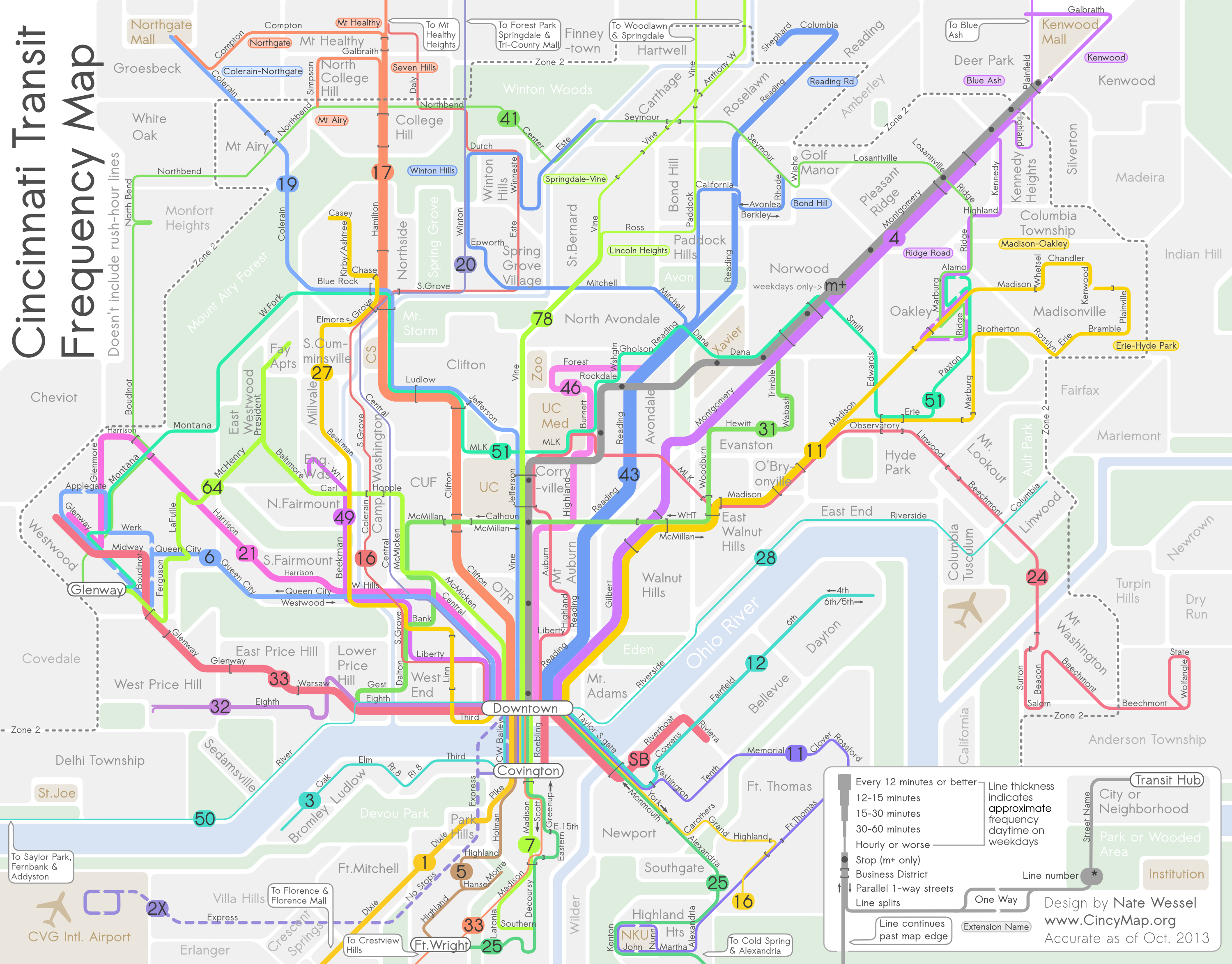 The Cincinnati Transit Frequency Map shows the arrangment and frequency of transit lines in Cincinnati, Ohio that run throughout the day.